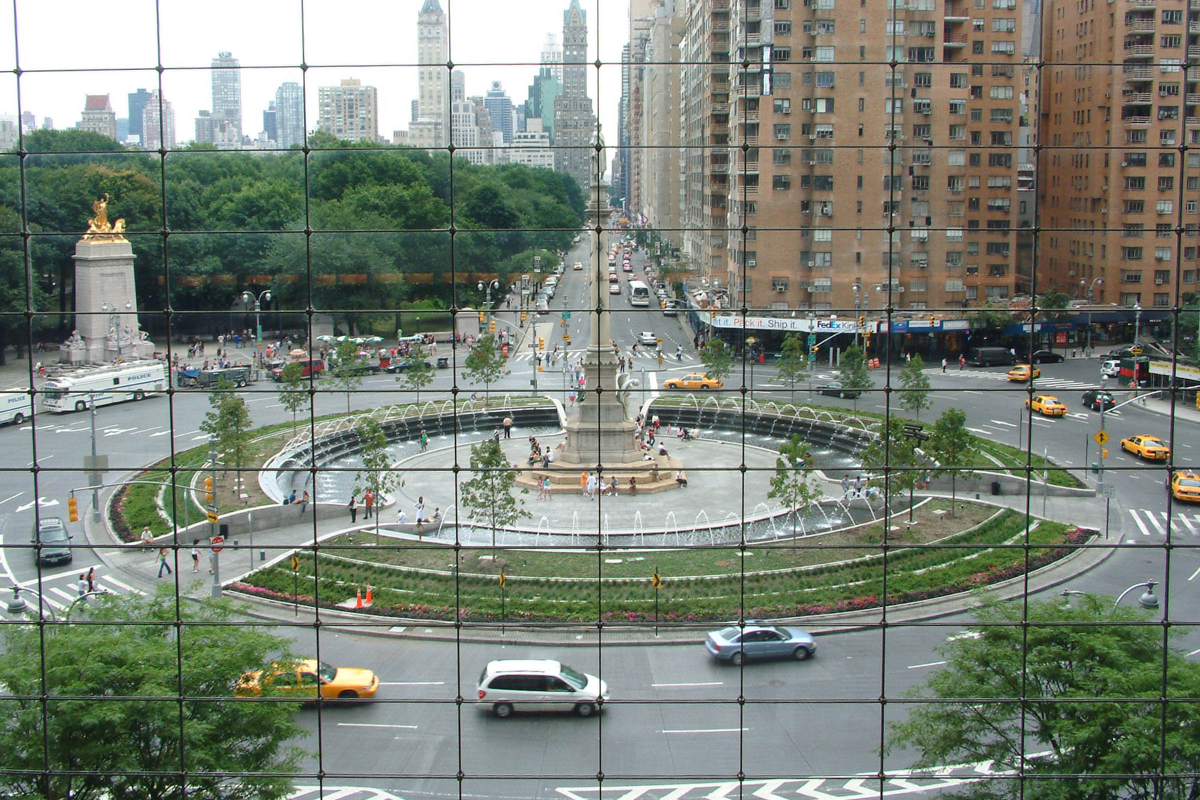 Photo of Columbus Circle, New York City, from the third floor balcony in the foyer of the Time Warner Center, looking east down 59th Street.